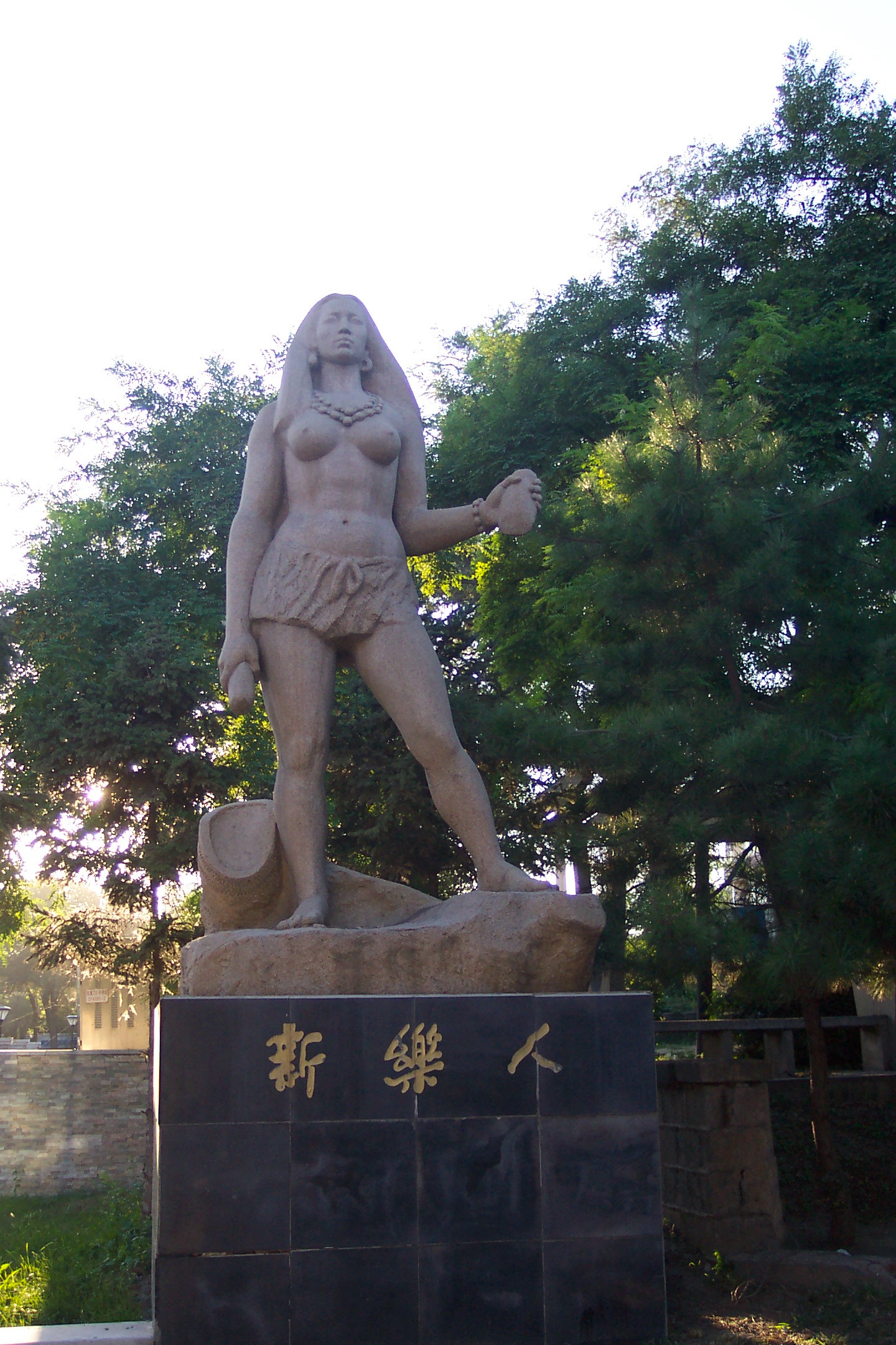 Xinle culture statute